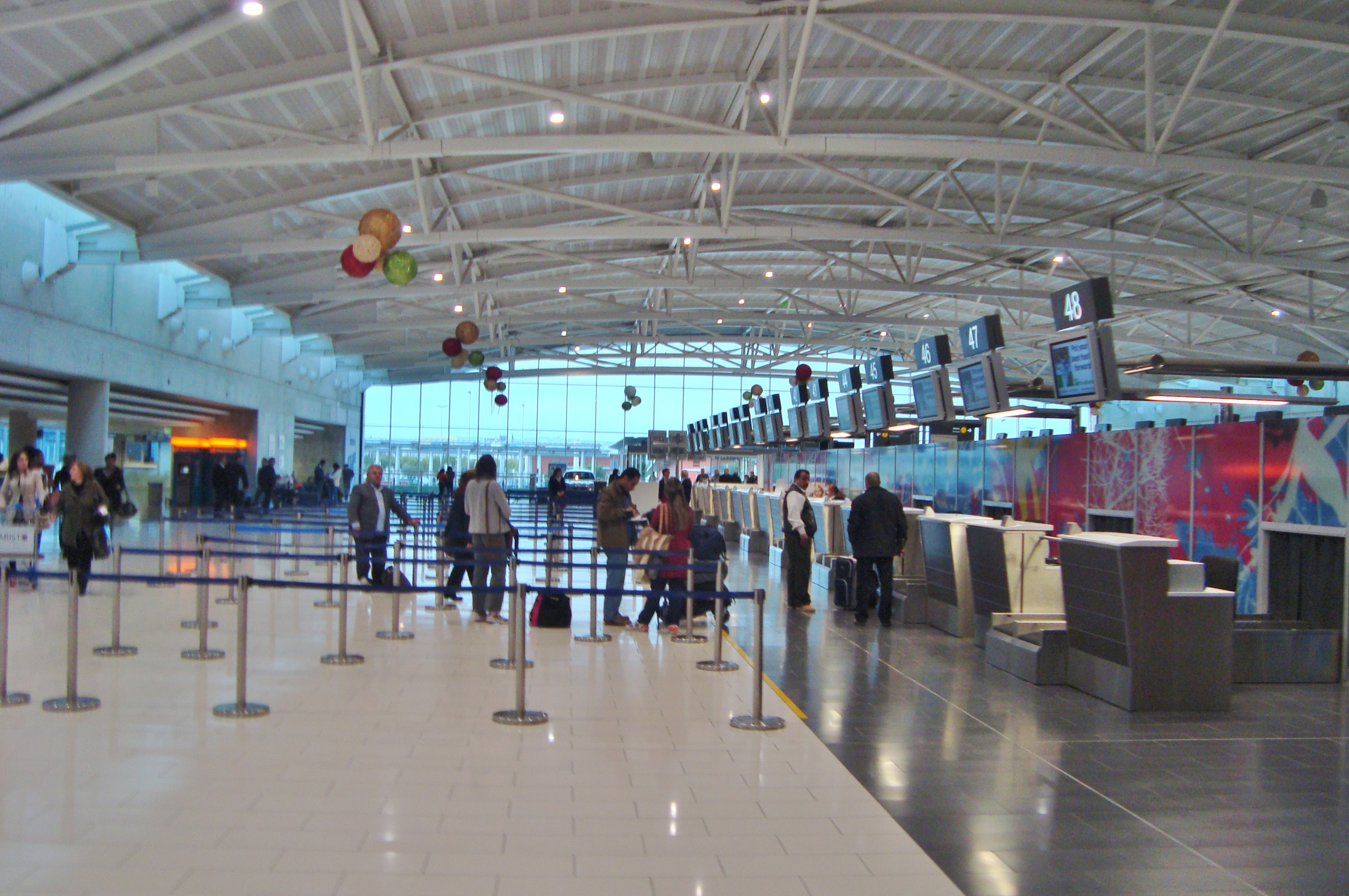 Larnaca International Airport Republic of Cyprus